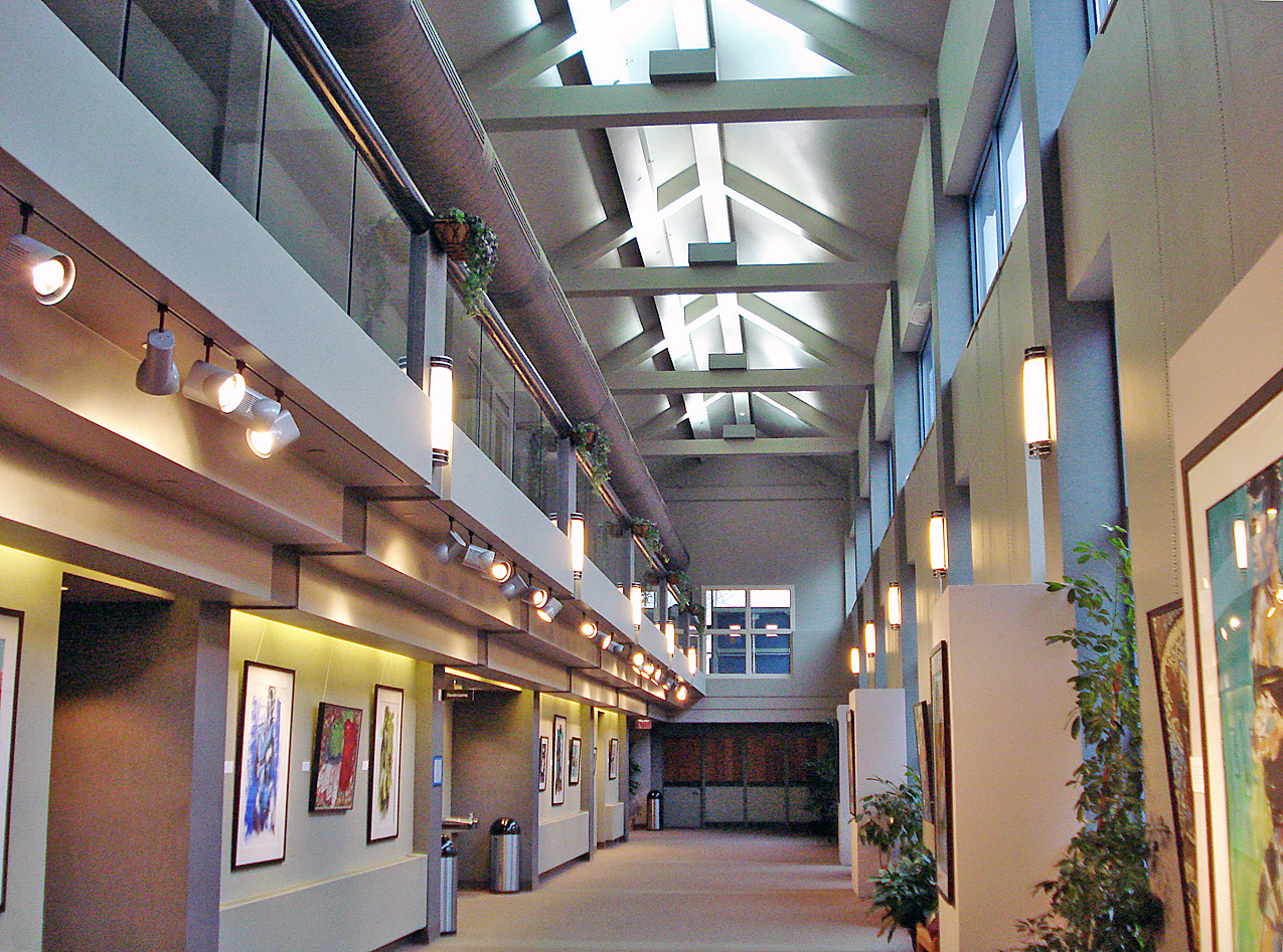 Interior of the Pasquerilla Performing Arts Center at the University of Pittsburgh at Johnstown